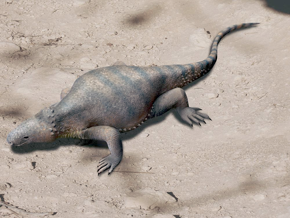 Life restoration of Eunotosaurus africanus.